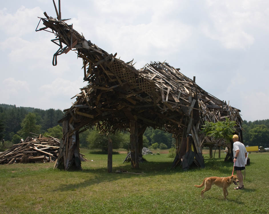 "Vermontasaurus" sculpture of a brontosaurus by Brian Boland, made from scrap lumber obtained from a collapsed portion of Boland's hot-air balloon manufacturing facility and private museum in Post Mills, Vermont.